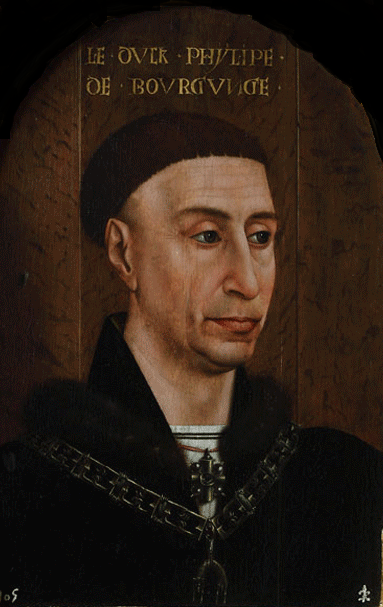 Portrait of Philip the Good (1396-1467), third Duke of Burgundy from the House of Valois. Bust, facing right. Old copy after Rogier van der Weyden. Other versions in Antwerp, Berlin, Gotha and Lille.